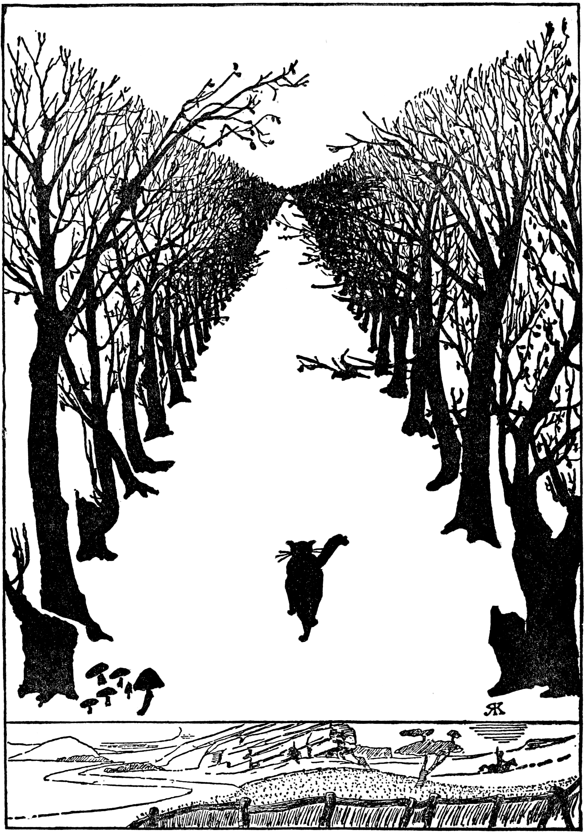 Illustration from a collection of short stories Just so stories (c1912) Garden City, NY : Garden City Pub. Co.